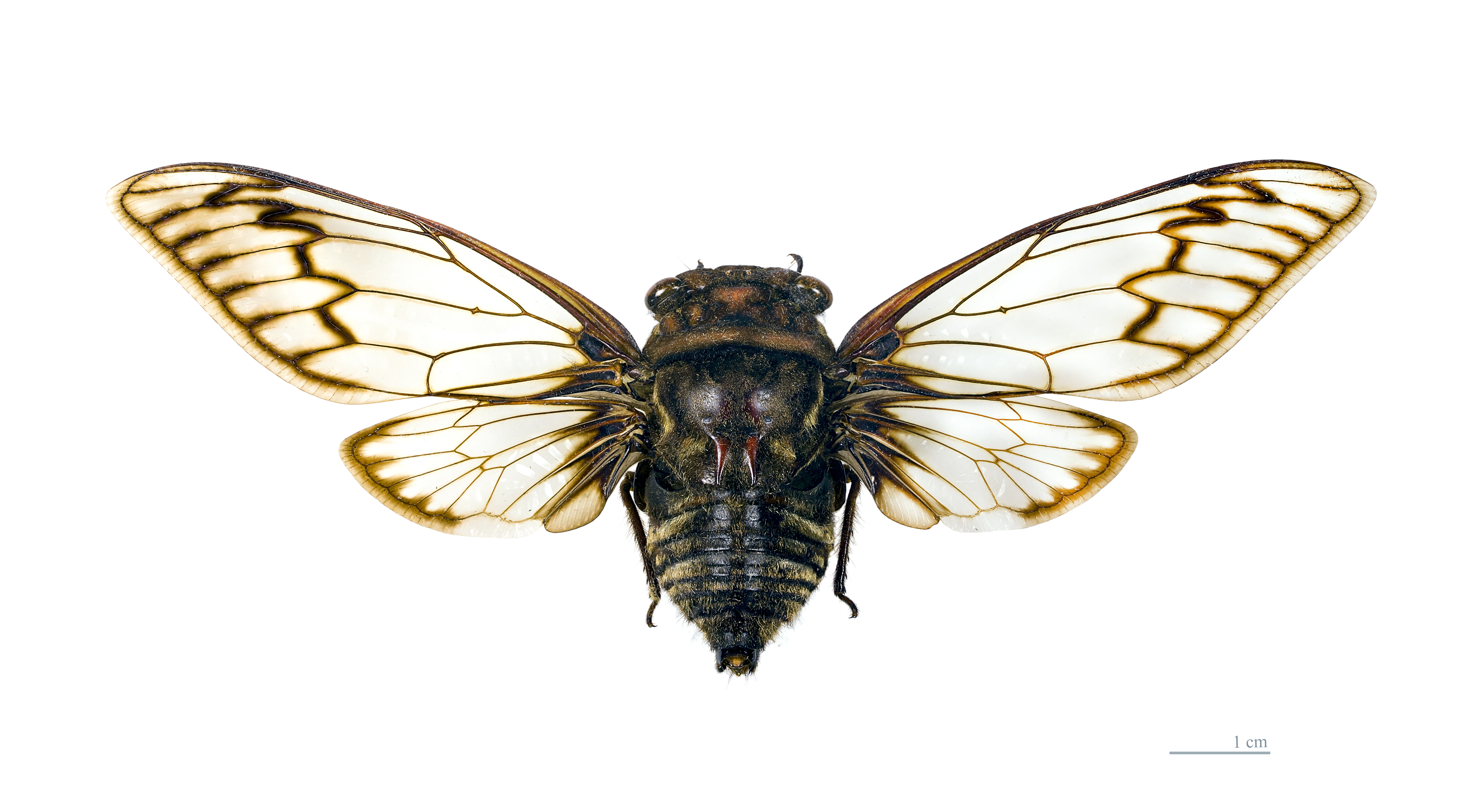 Dorsal side Locality : Mt Singes, Kourou, French Guiana